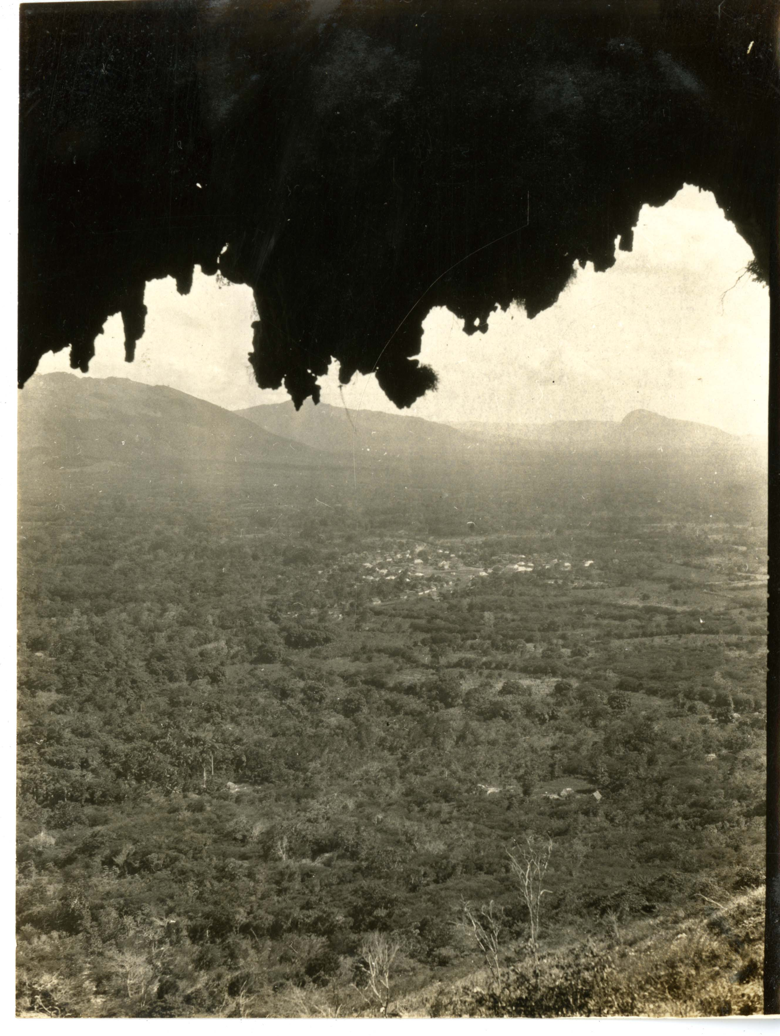 Creator: Watson Perrygo Local number: SIA2008-2544 Summary: The photograph documents Watson Perrygo's field work with Arthur J. Poole in Haiti. Dates: 1928-1929 Collection: SIA RU 7306, Watson M. Perrygo Papers, circa 1880s-1979. Box 2, Folder 10. Repository: Smithsonian Institution Archives View more collections from the Smithsonian Institution.